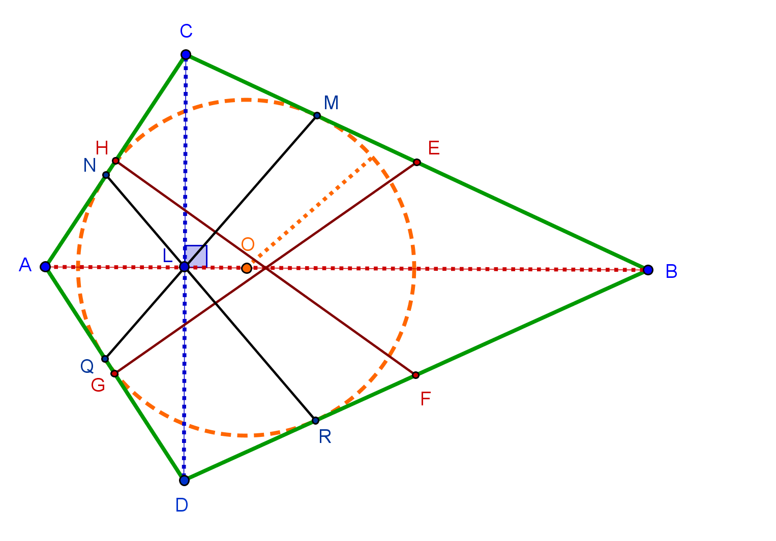 Quarilateral kite, bimedians and tangential cords